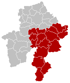 Map of Dinant District in province of Namur, Belgium.